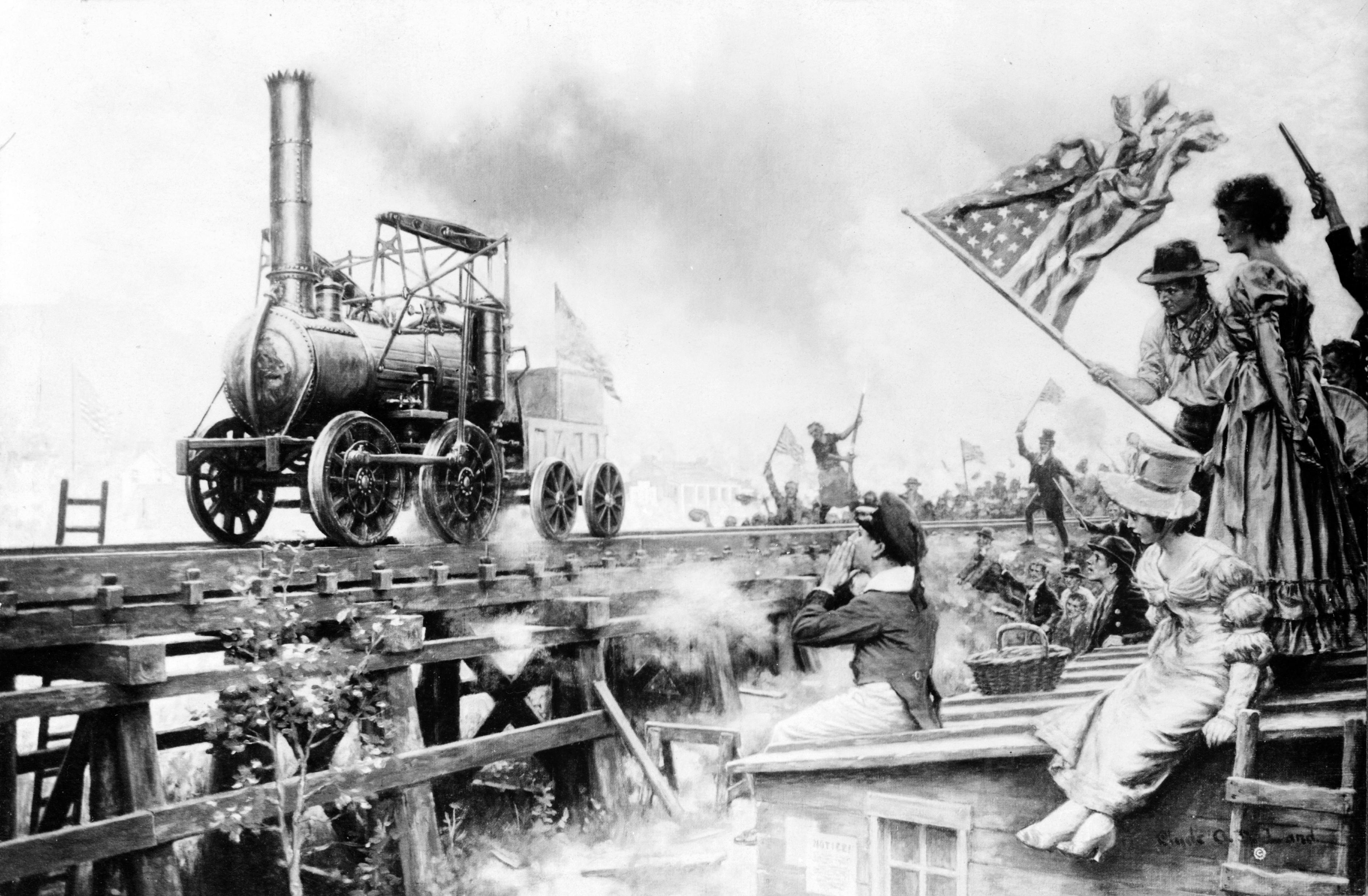 Depiction of the first run of the locomotive Stourbridge Lion on August 8, 1829, in Honesdale, Pennsylvania. Painted c. 1916.